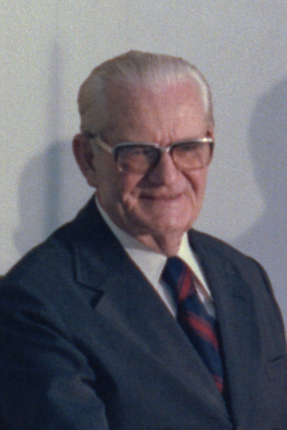 Brazilian President Ernesto Geisel hosts a State Dinner for Jimmy Carter and Rosalynn Carter, March 29, 1978.